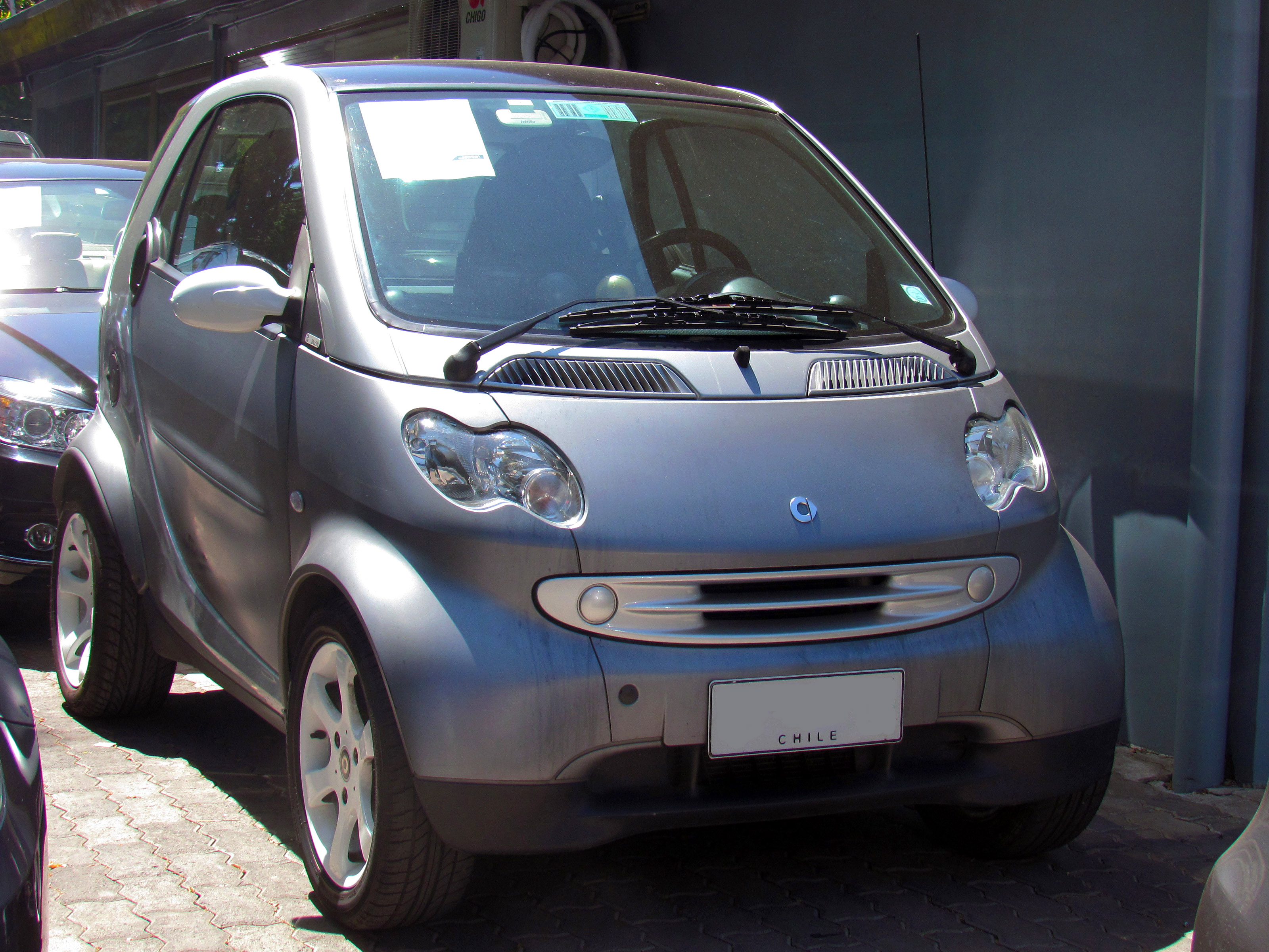 Smart ForTwo 699 20x20 Bild Edition 2007